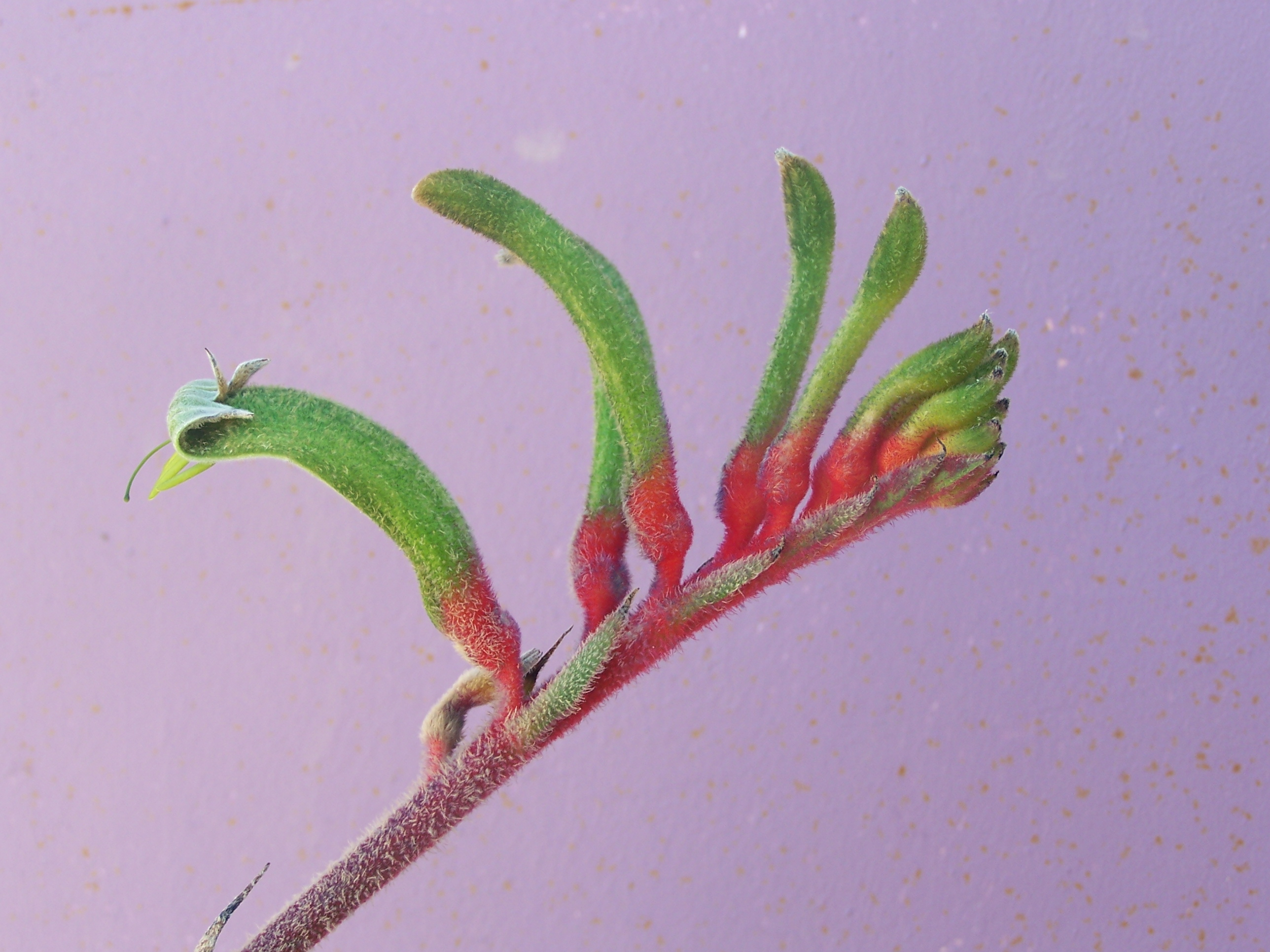 Anigozanthos manglesii , Red and Green Kangaroo Paw , Kangaroo Paw